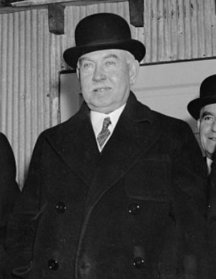 Title: Attend dedication of statue to founder of Lafayette escadrille. Washington, D.C., Dec. 6. Prominent figures attending the dedication of the tomb and statue to Lieut. Norman Prince, Founder of the Lafayette Escadrille, at Washington Cathedral today were, right to left: Jules Henry, Counselor of the French Embassy; Maj. Gen. Adelbert de Chambron of the French Army; and General John J. Pershing. 12/6/37 Creator(s): Harris & Ewing, photographer Date Created/Published: [19]37 December 6. Medium: 1 negative : glass ; 4 x 5 in. or smaller Reproduction Number: LC-DIG-hec-23741 (digital file from original negative) Rights Advisory: No known restrictions on publication. Call Number: LC-H22- D-2823 [P&P] Repository: Library of Congress Prints and Photographs Division Washington, D.C. 20540 USA